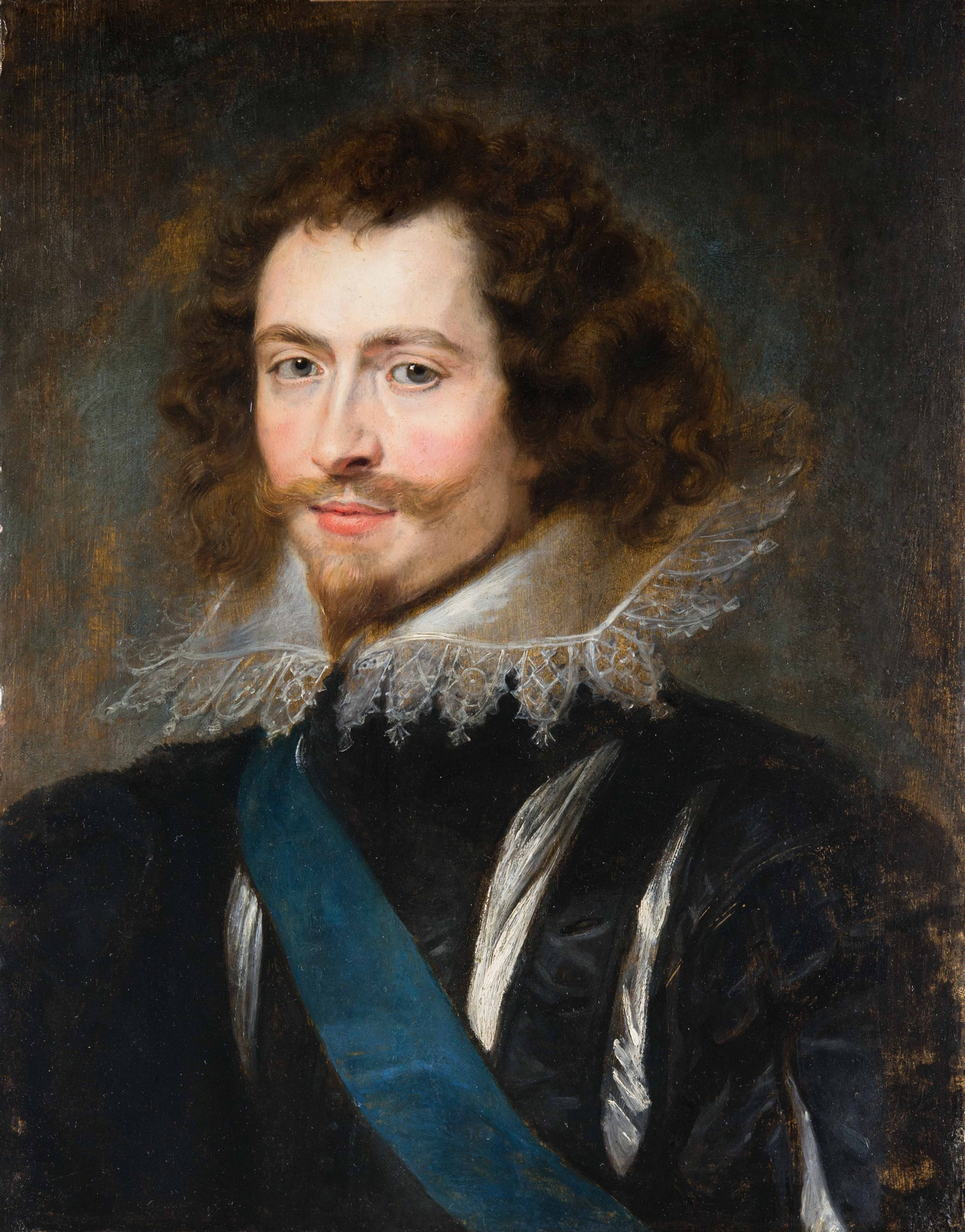 George Villiers, first Duke of Buckingham